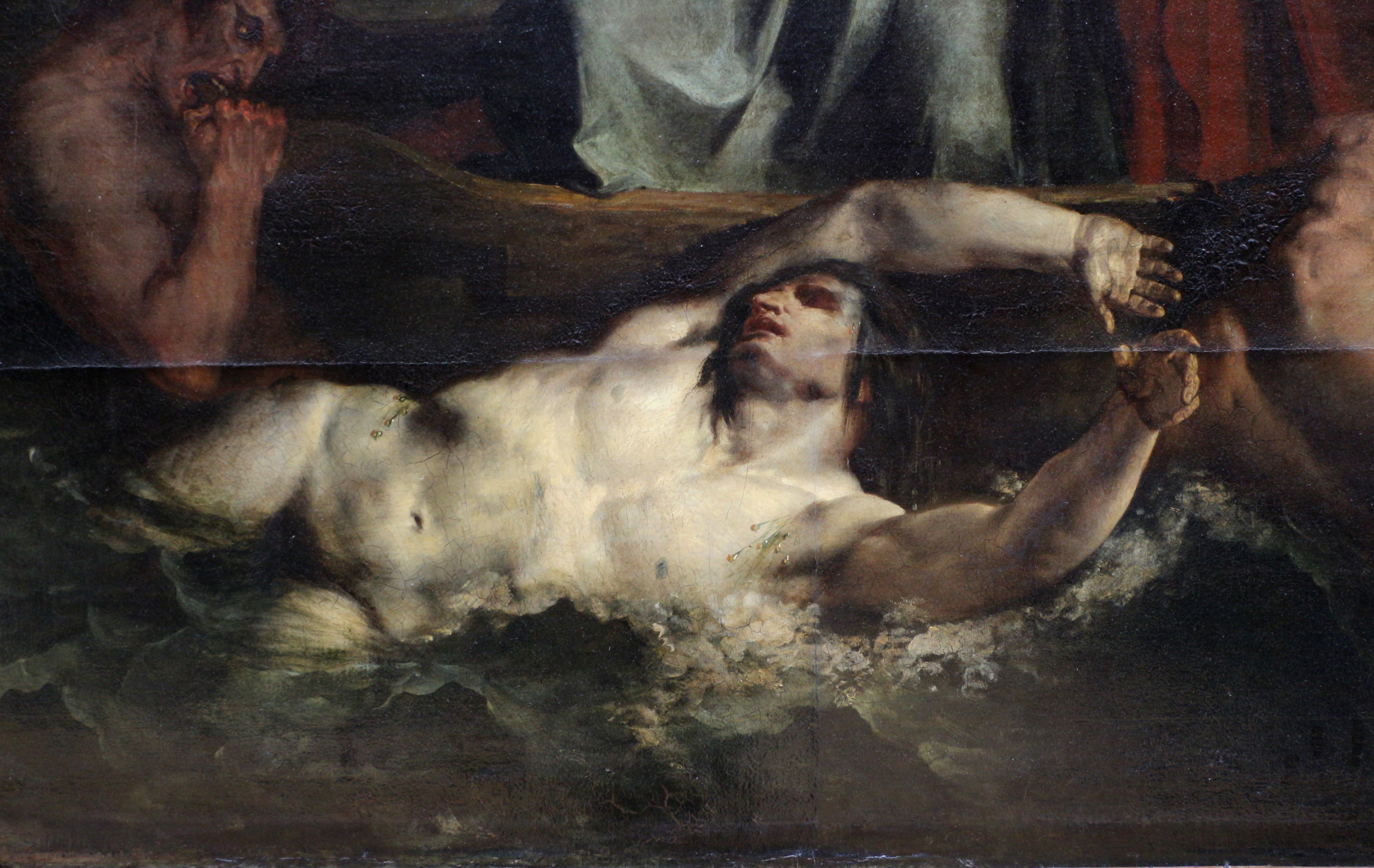 French paintings in the Louvre